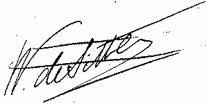 Willem de Sitter signature